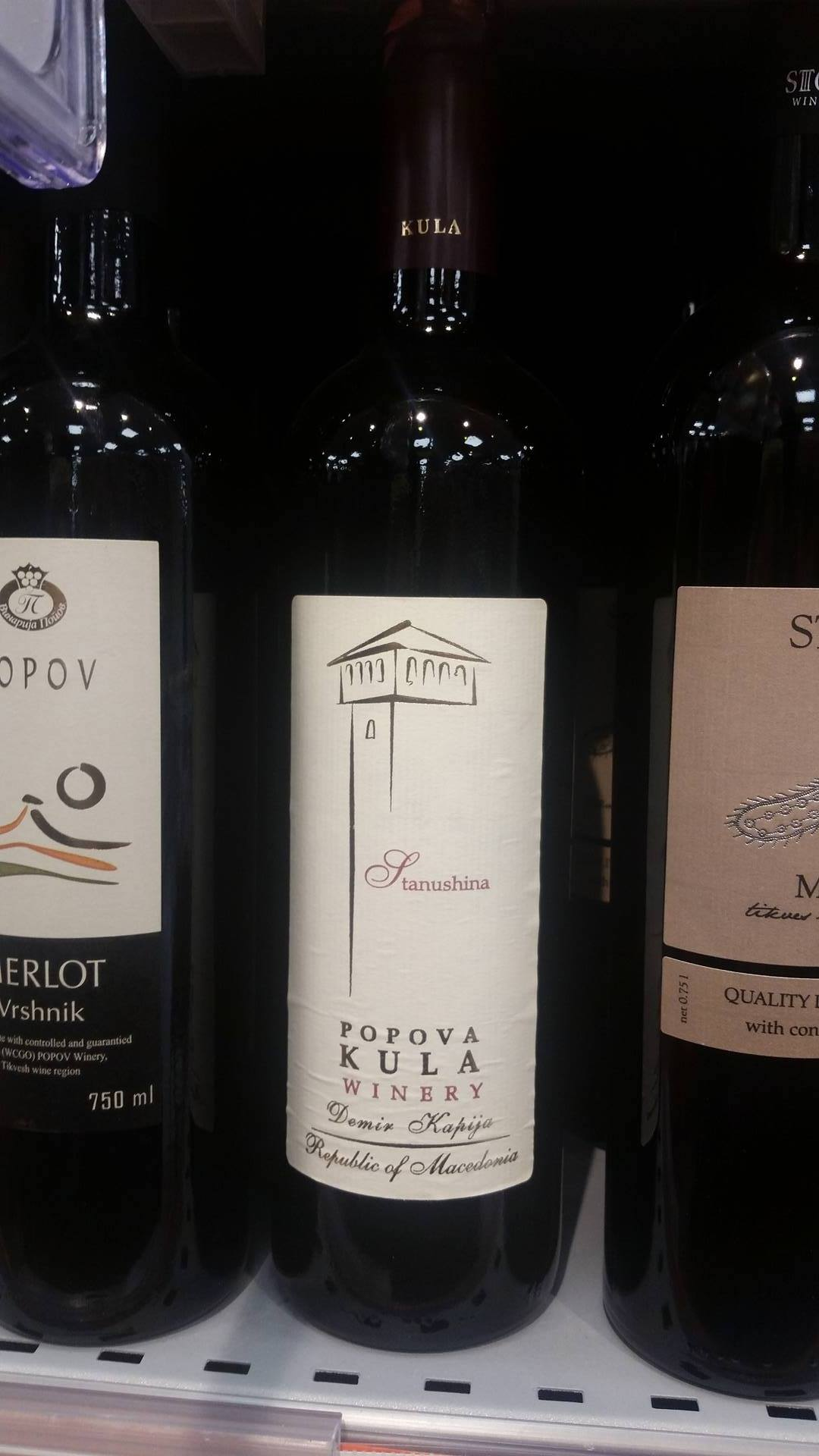 Merlot wine of Stanusina grape